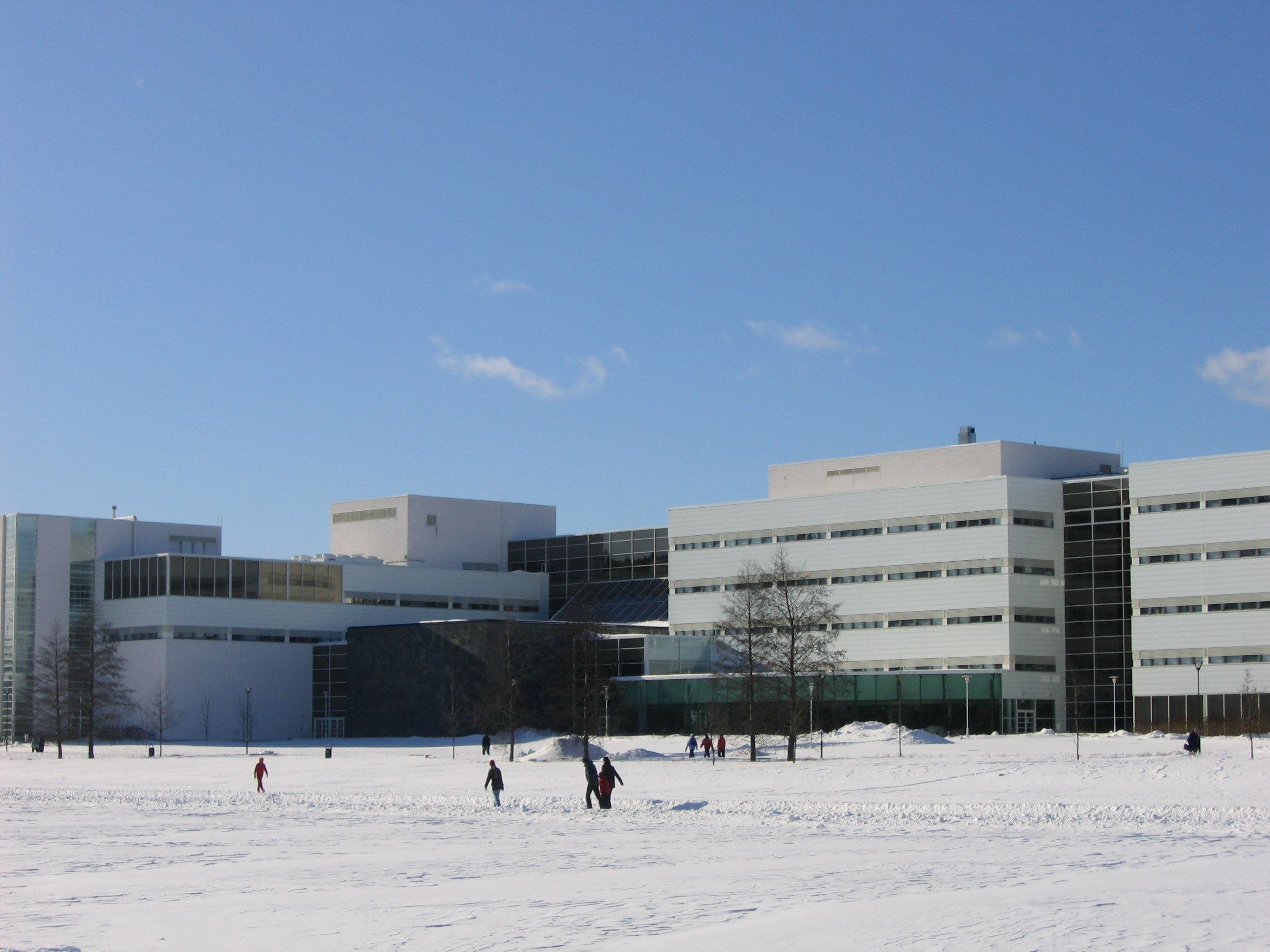 Agora building in the winter